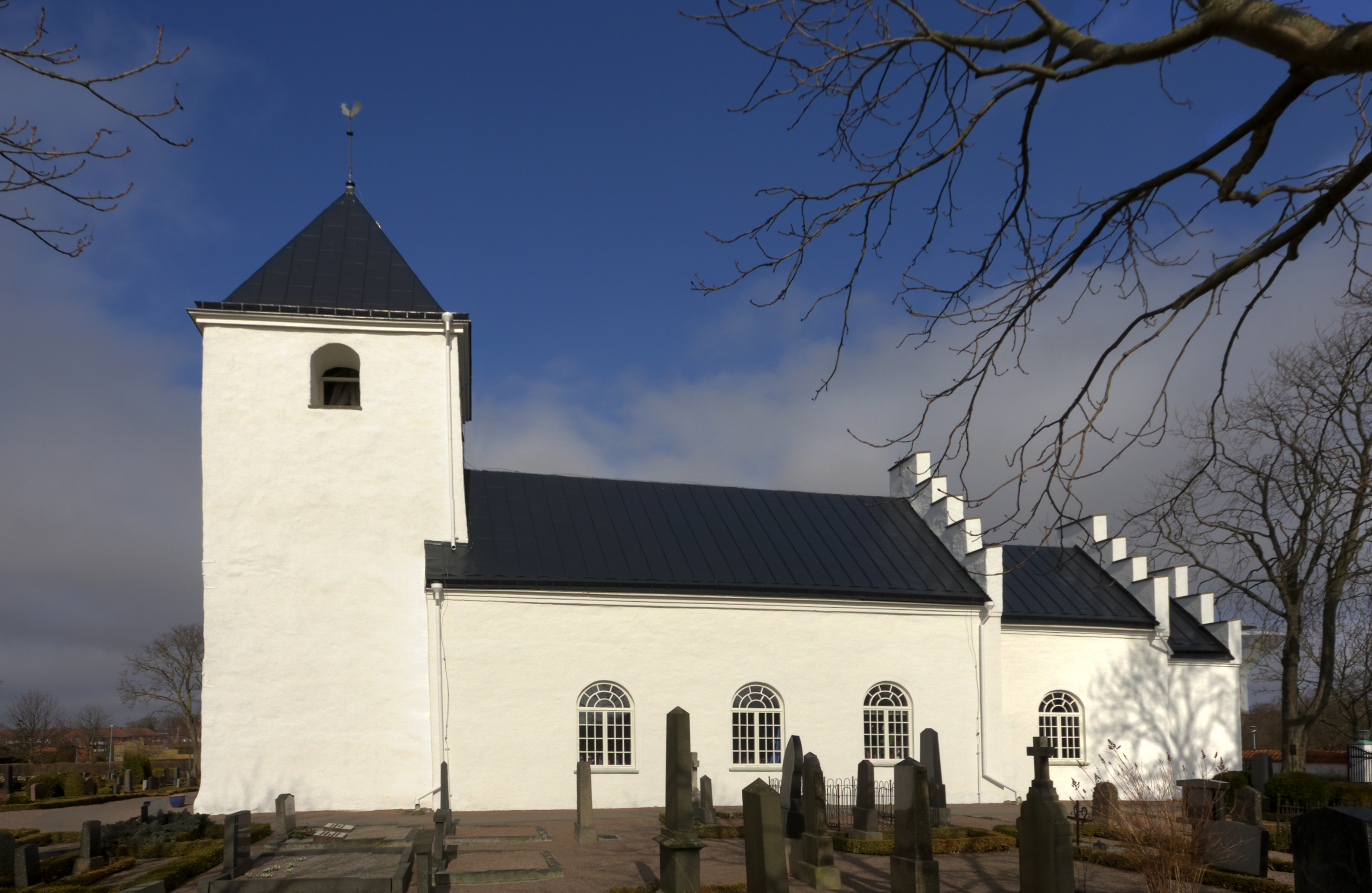 Bjuvs kyrka, parish church of Bjuv Parish in Bjuv, Sweden.